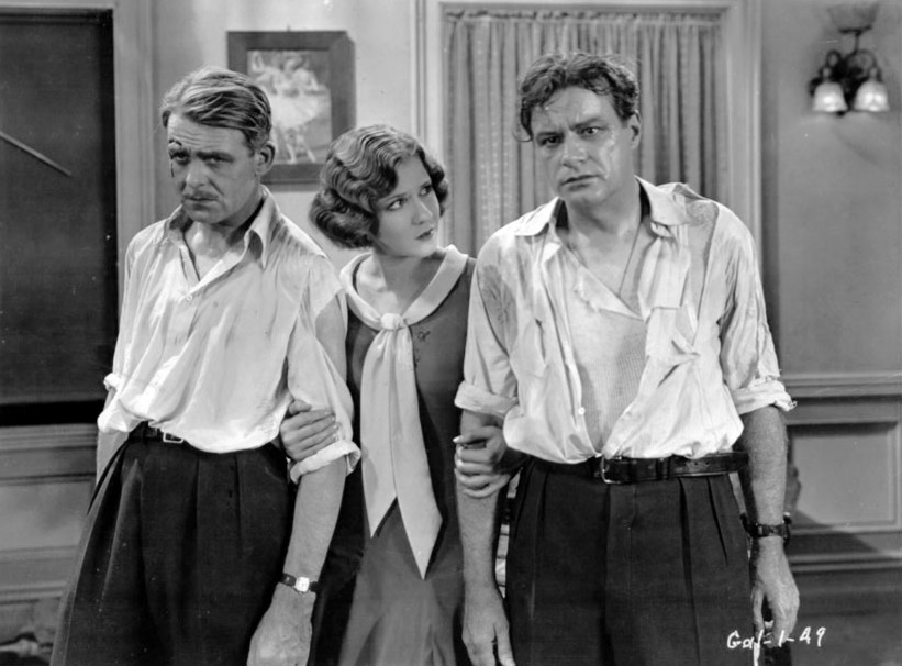 Still from the American film Nix on Dames (1929). From left: Robert Ames, Mae Clarke, and William Harrigan.